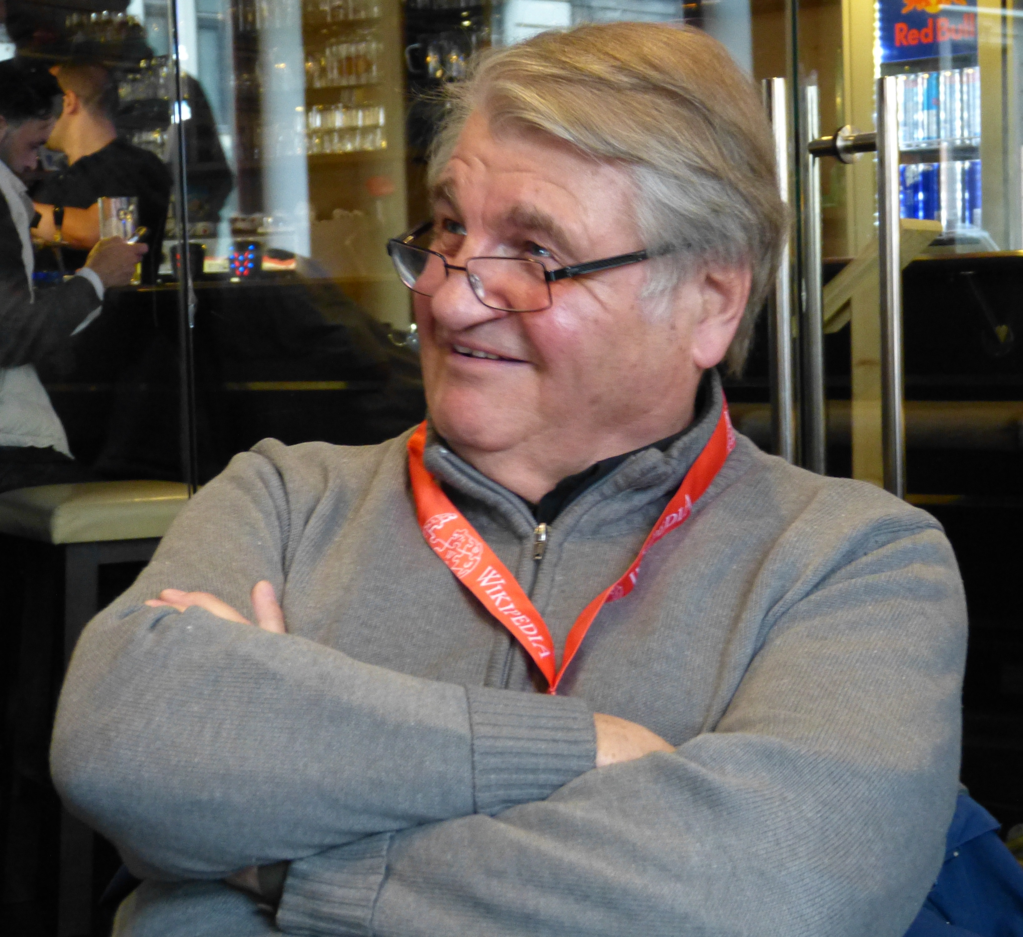 Wikipedia meeting in Vienna May 2013 - Peter Turrini.